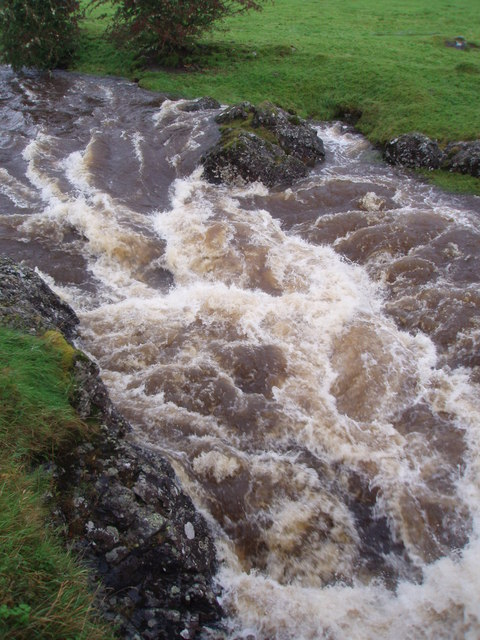 Turbulent Water of Ken Heavy rains have swollen the Water of Ken into a raging torrent as it flows through a narrow rock channel beneath the B7000 Road.